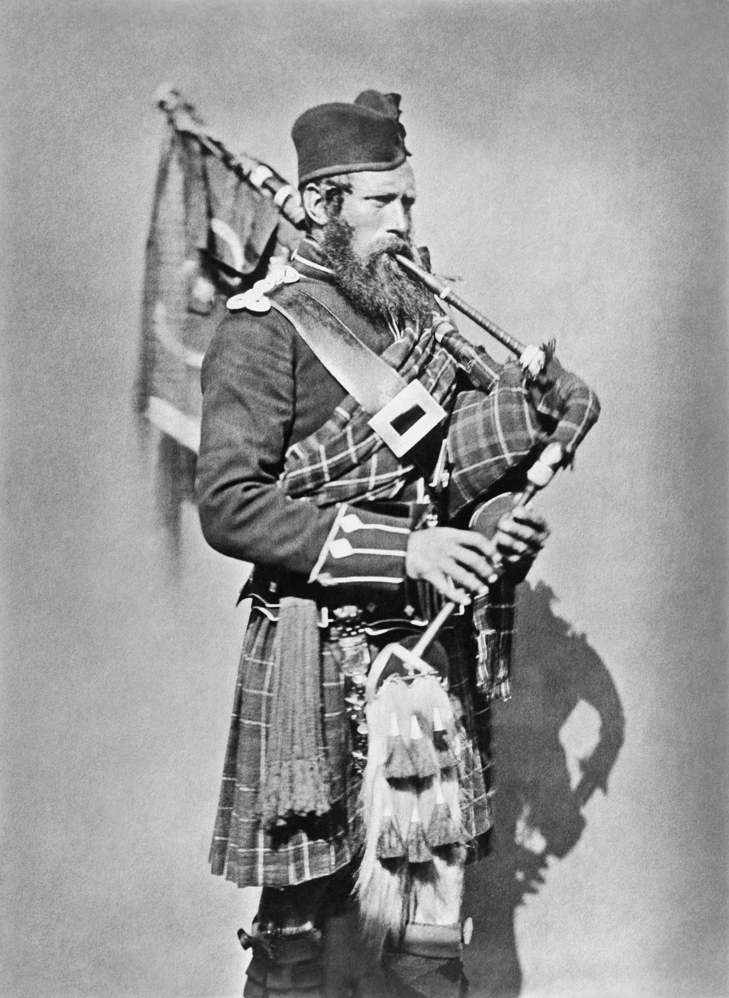 Crimean War 1854 - 1856 Portrait of Pipe Major John Macdonald, 72 Highlanders, with bagpipes.